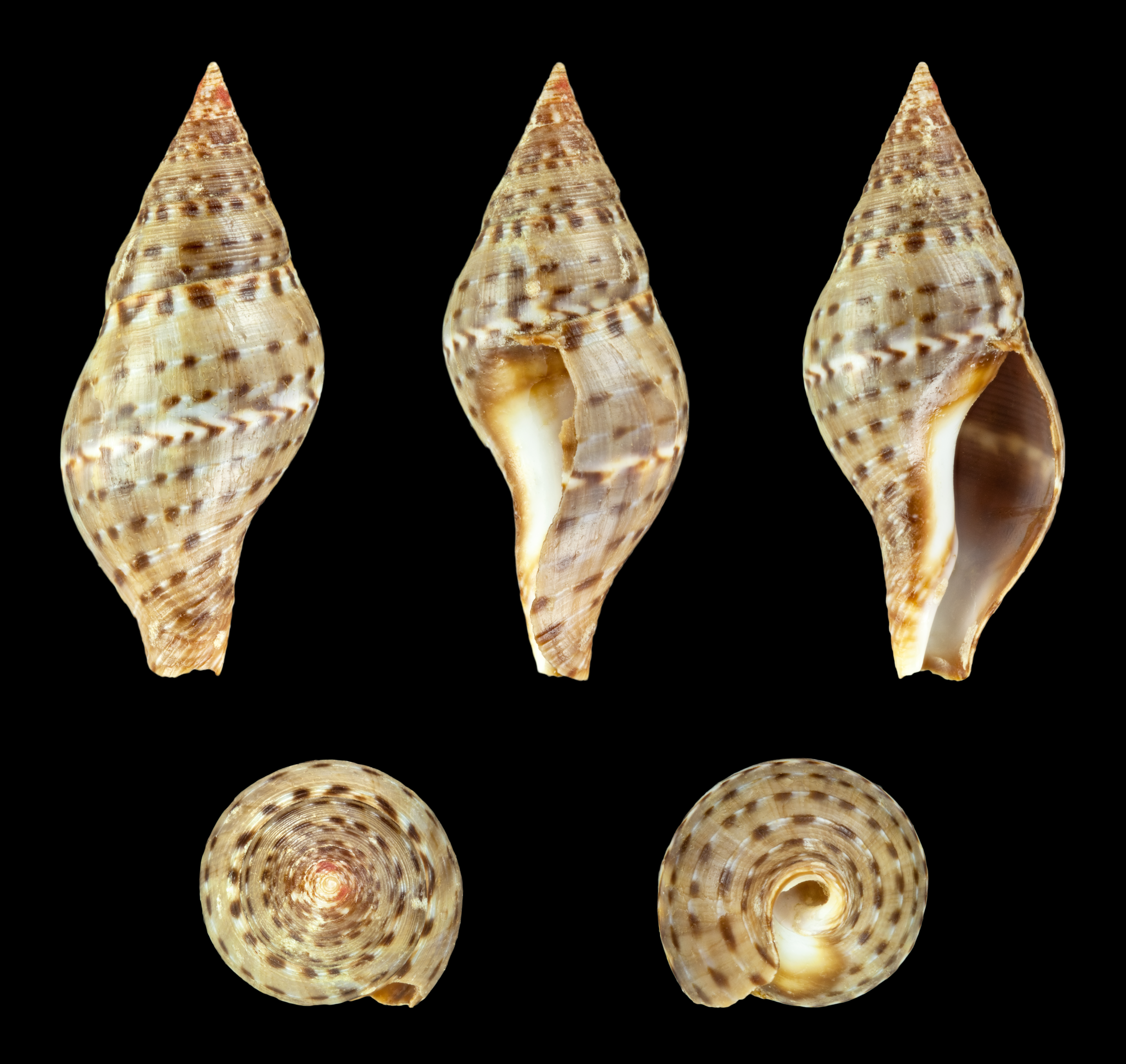 Pisania pusio (Linné, 1758), Miniature Trumpet Triton; Length 2.3 cm; Originating from Bonaire; Shell of own collection, therefore not geocoded.